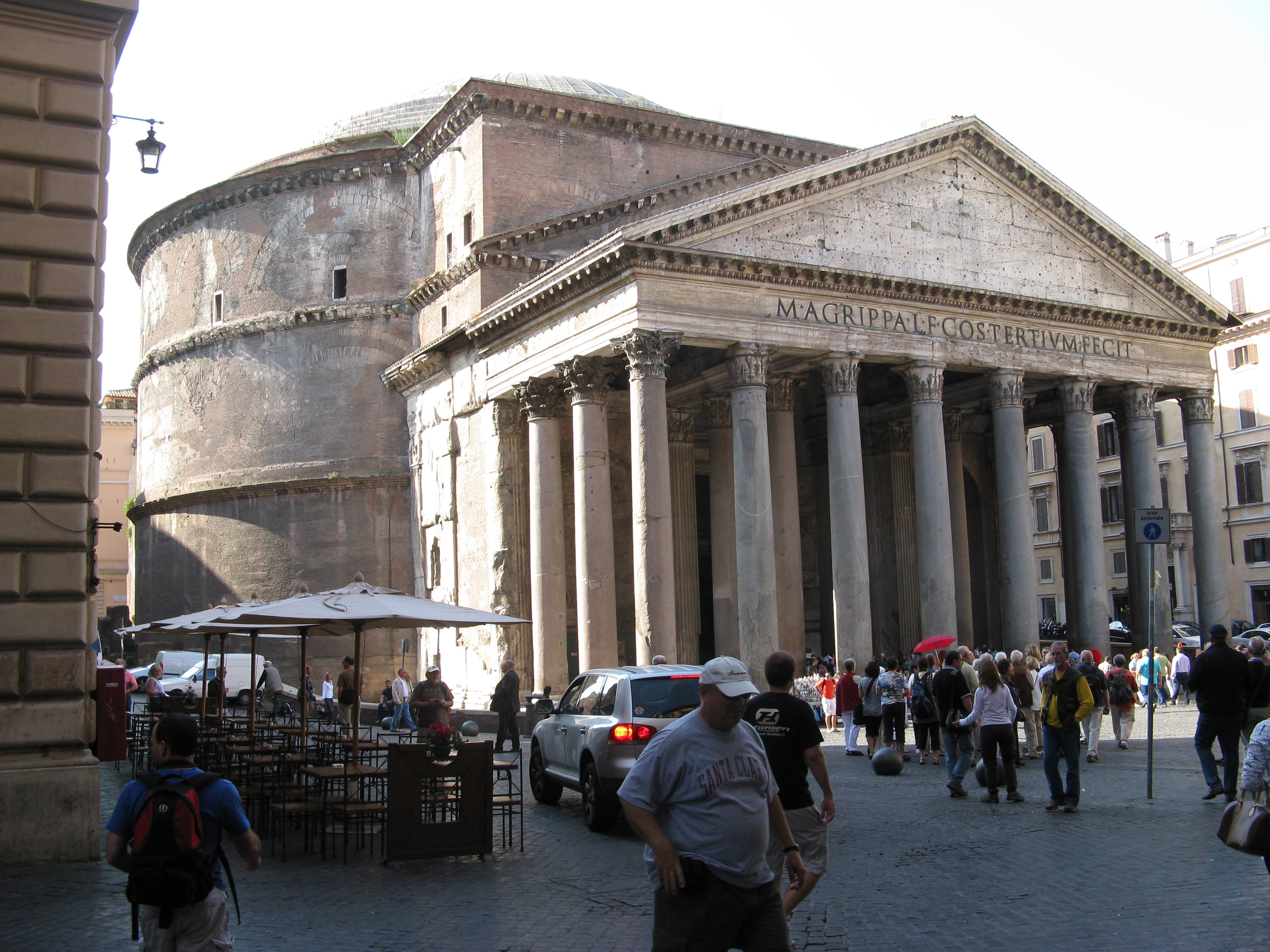 Pantheon, Corinthian columns